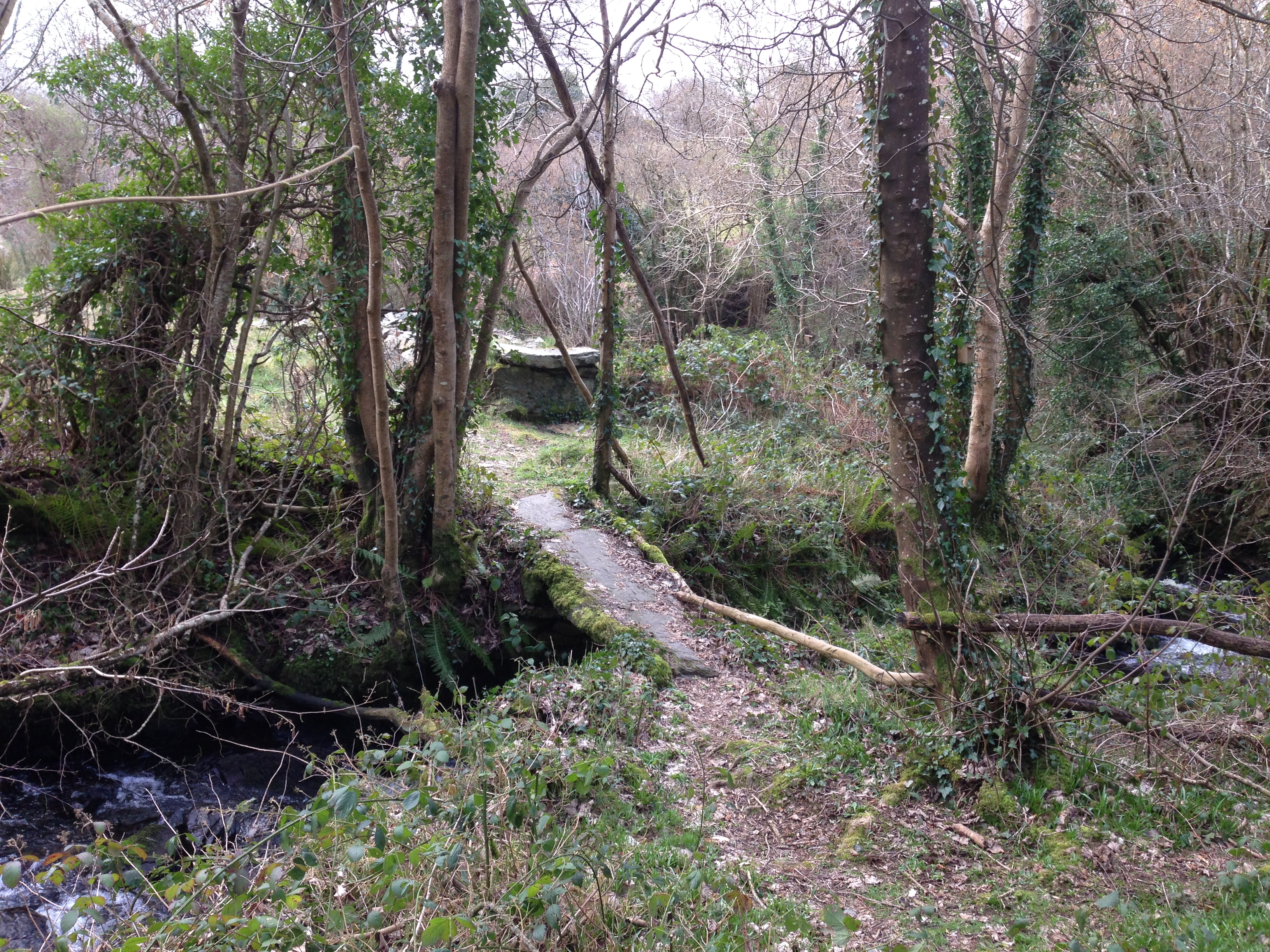 Mass rock and long stone, Tonaneave. The river served both to separate the people from the sacrament (the function performed by a redoros in a church) and to drown out their prayers. It is said that local protestants kept watch on the hills above to protect and warn their Catholic neighbours of impending danger while they heard mass.